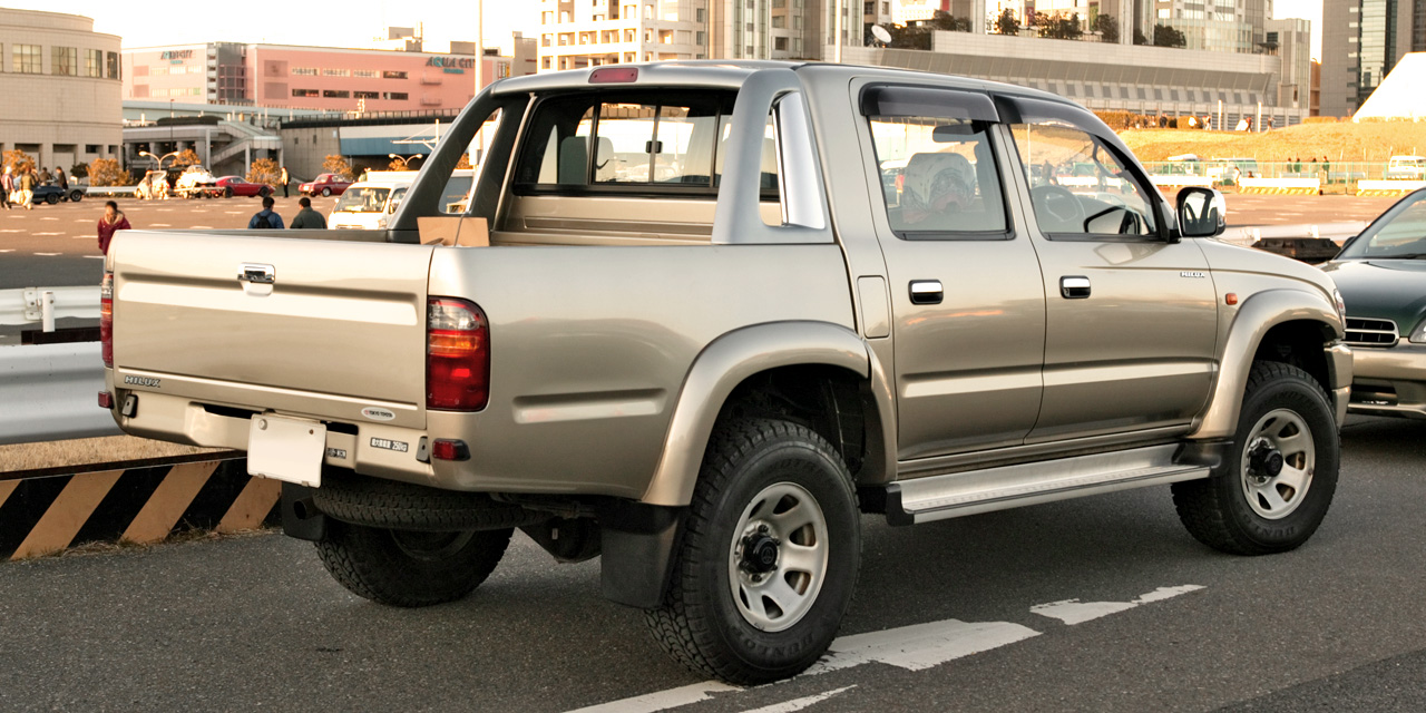 Toyota Hilux Sports Pickup Double Cab Wide 2700 4WD ( Japan spec RZN169H )